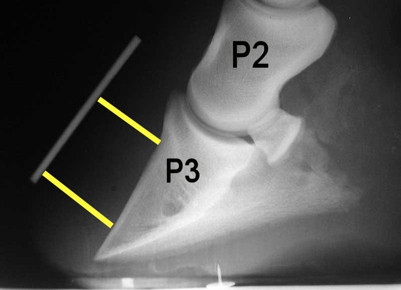 A typical x-ray or radiograph of a laminitic foot in a horse. The annotation P2 stands for the middle phalanx (pastern bone) and P3 denotes the distal phalanx (coffin bone). The white line marks the boundary of the outer hoof wall and the yellow lines show the distance between the top and bottom part of the coffin bone with the outer hoof wall. In this example the distal (bottom) part of the coffin bone is rotated away (greater distance) from the hoof wall, an indication of laminitis.